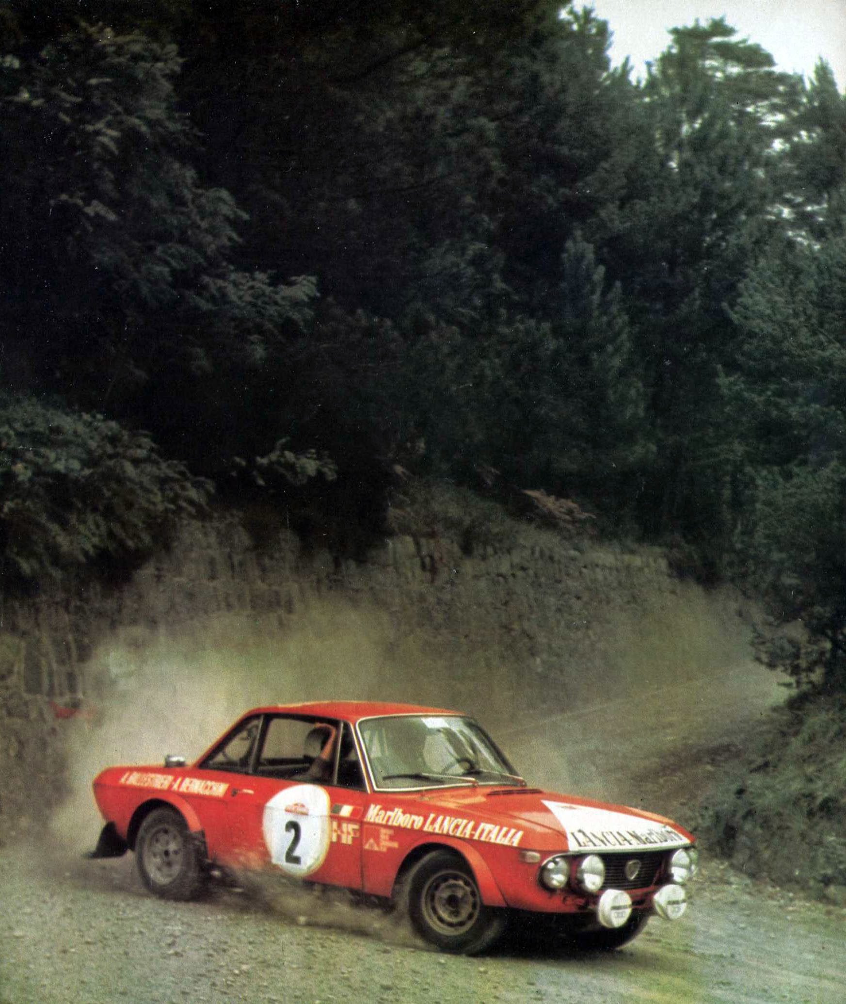 Italian rally driver Amilcare Ballestrieri and his co-driver Mario Bernacchini on a Lancia Fulvia 1.6 Coupé HF (Group 4) sponsored Marlboro at the 1972 Rallye Sanremo.